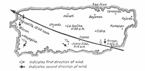 this image shows the path of "Huracán San Ciriaco" of 1899 across Puerto Rico. It caused torrential rains and powerful winds.